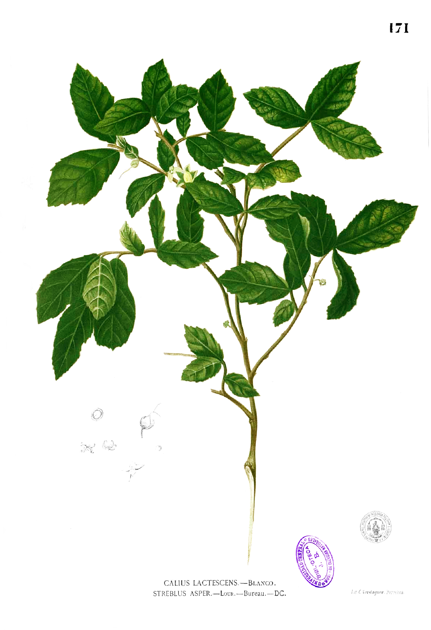 Plate from book